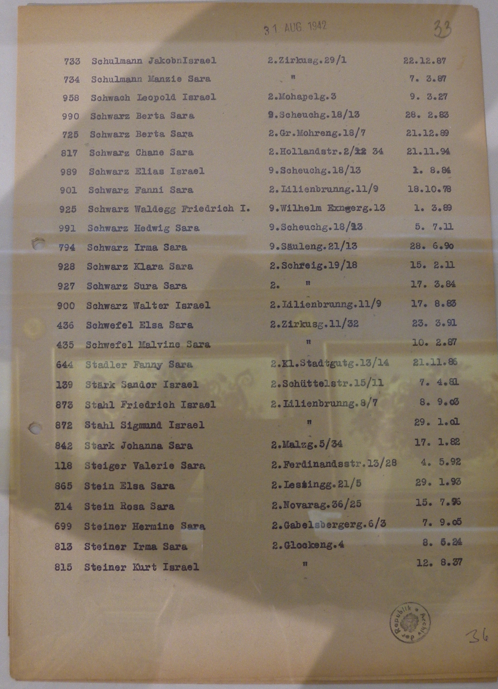 transport list from August 31st, 1942 which mentiones the painter Fritz Schwarz-Waldegg